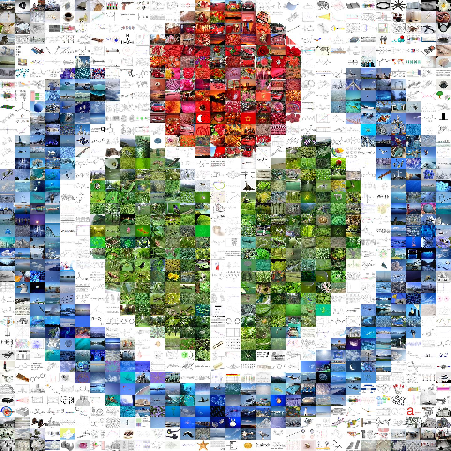 This image is a captured version of Wikimedia logo mosaic. In its history you may see other versions captured daily. Note that the original mosaic contains some animations, so this is not exactly how it looked/looks.